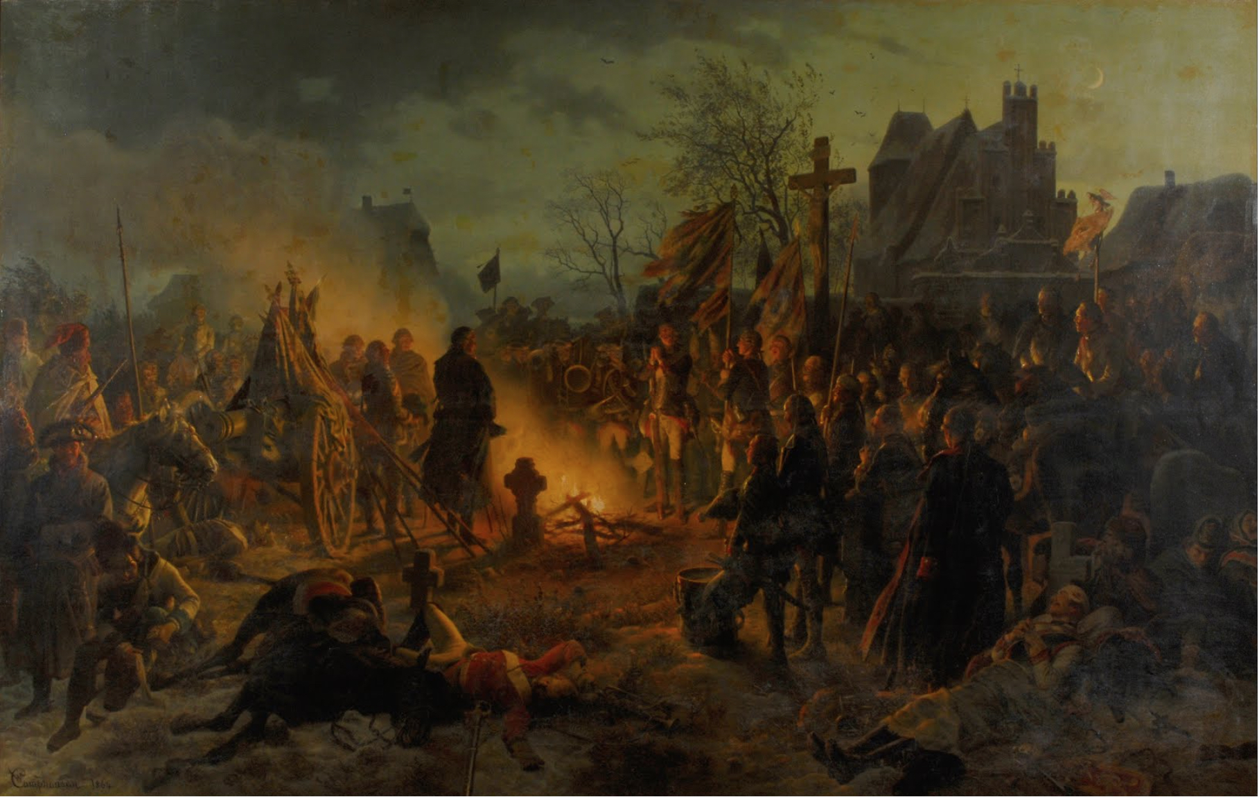 King Frederick the Great of Prussia and his troops on the night of the victory at Leuthen